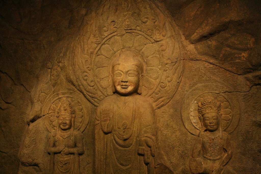 Sosan Buddha Triad, Baekje 7th century. H. of Buddha 2.8 meters, of Bodhisattva 1.7 m., of seated Maitreya 1.66 m. Yonghyon-ri, Unsan-myon, Sosan-gun, South Ch'ungch'ong Province. National Treasure no. 84.